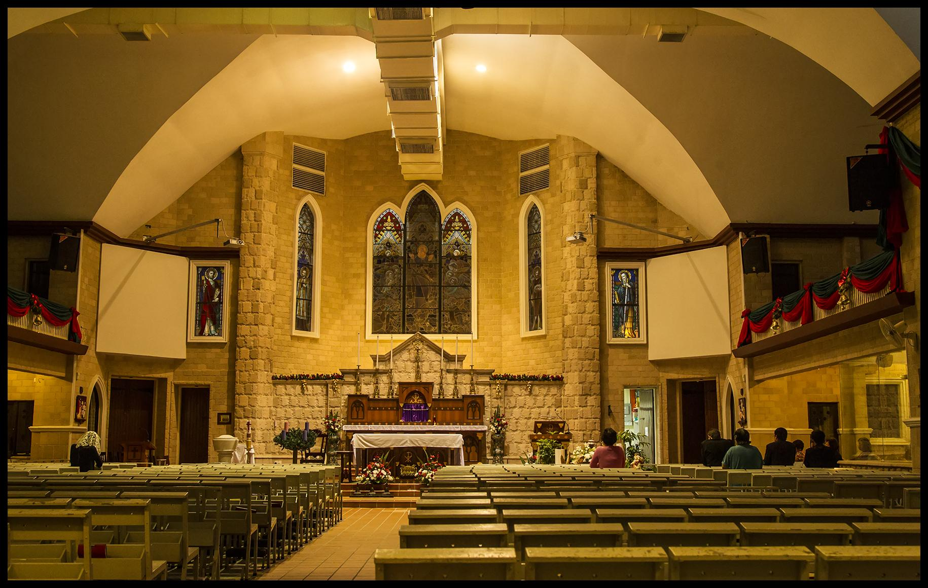 Church near my Penang hotel - Church of the Immaculate Conception, Penang